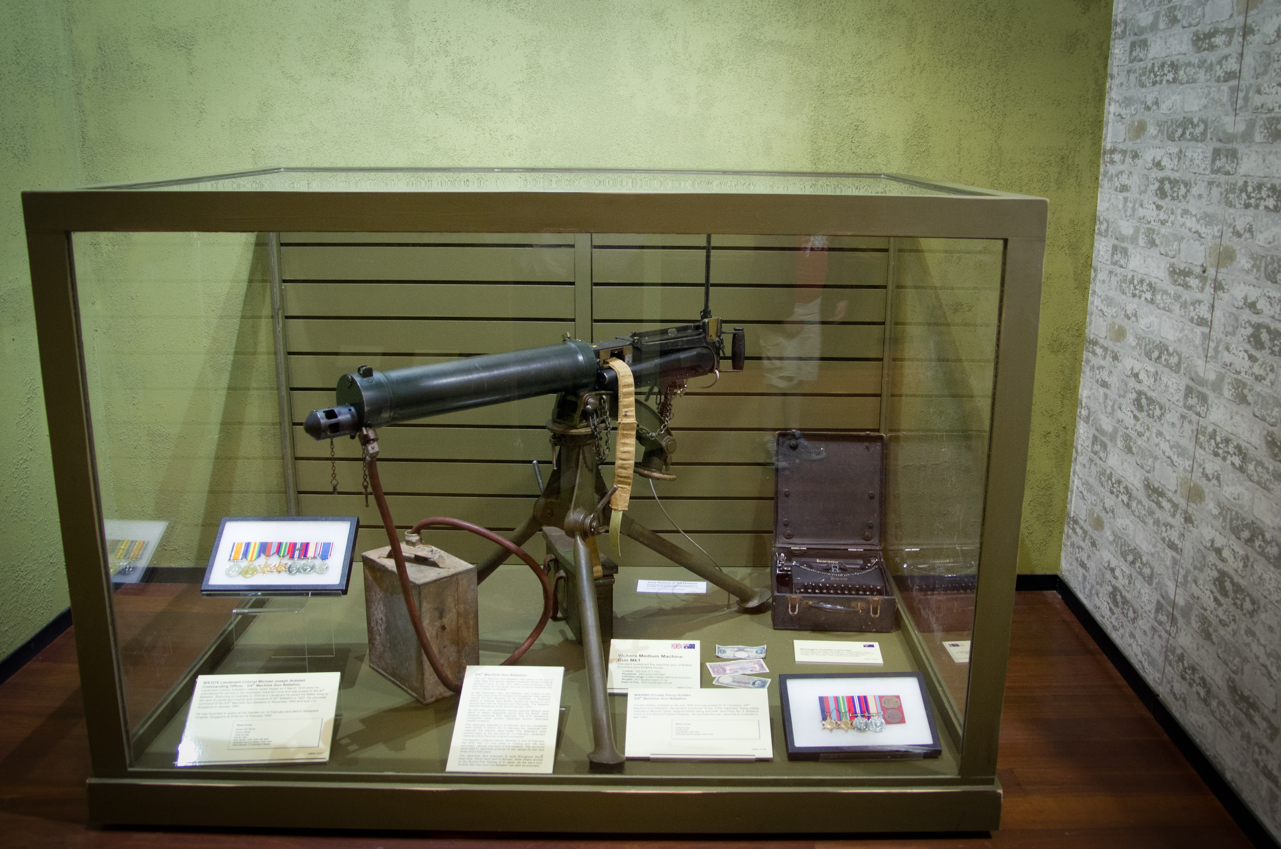 Vickers medium Machine Gun MKI, service medals(left) of Micheal Joseph Anketell.. Commanding Officer (17/10/1940 - 14/2/1942) 2/4th Machine Gun Battalion WWII. service medals(right) of Pte, Percy Golden taken prisoner in Java, interned in Thailand